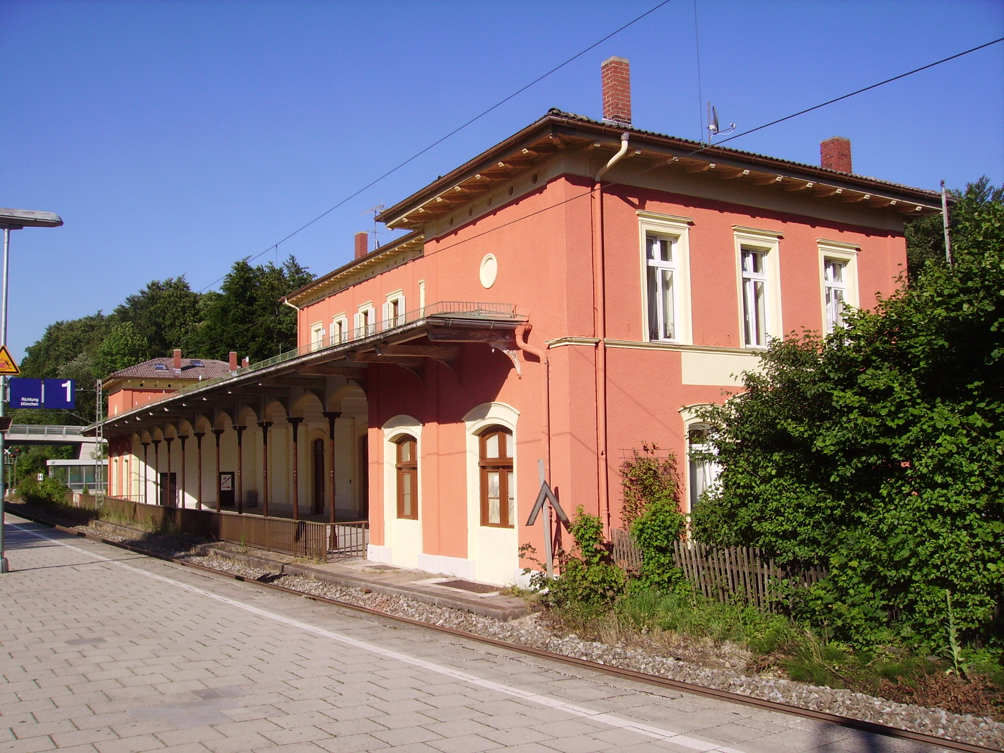 Possenhofen in Germany